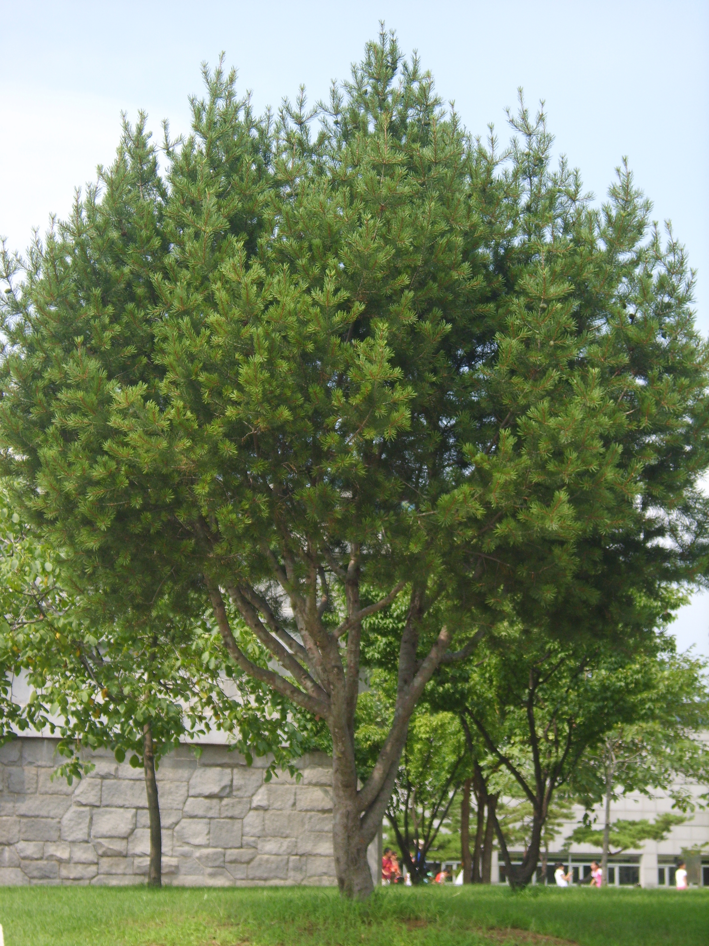 Pinus bungeana in the National Folk Museum of Korea